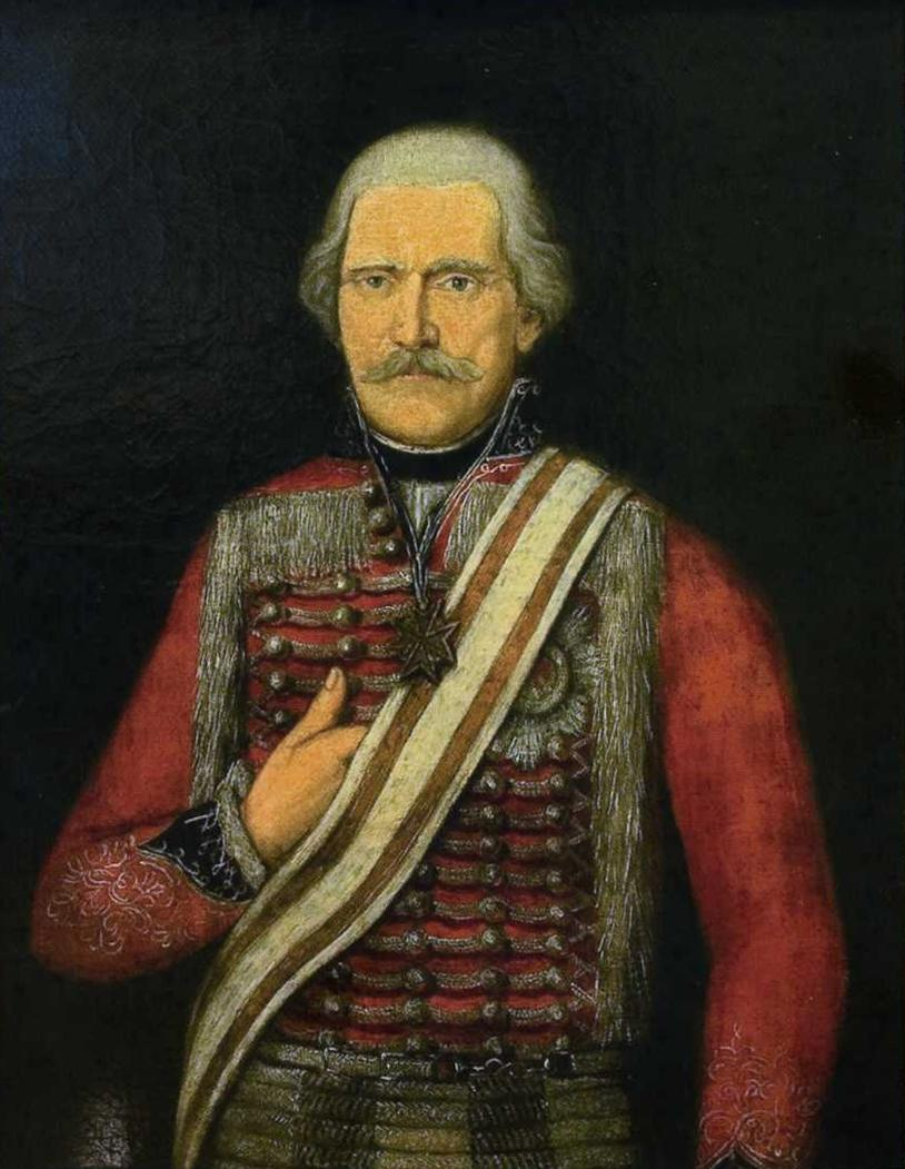 Major General Gebhard Leberecht von Blücher, by unknown artist (1800). Owned by the Masonic lodge Pax inimica malis, Emmerich